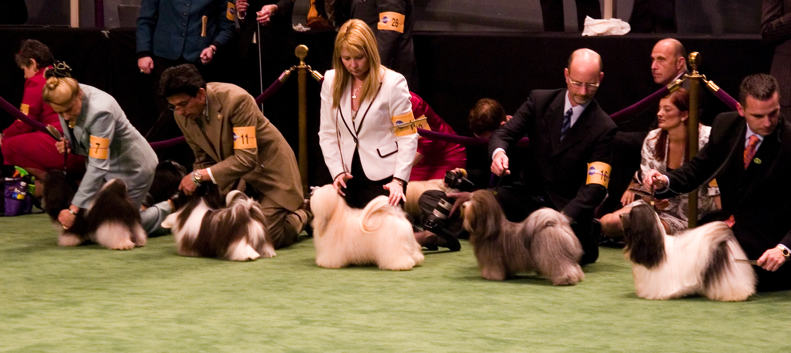 Bichon Havanais at Westminster Kennel Club dog show